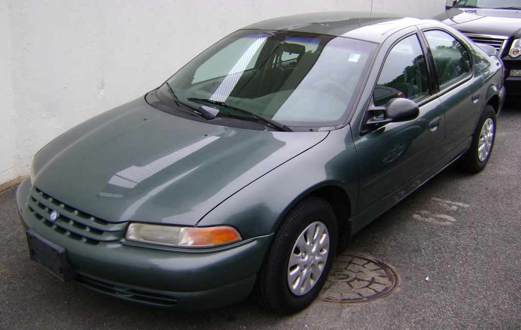 1996 Plymouth Breeze